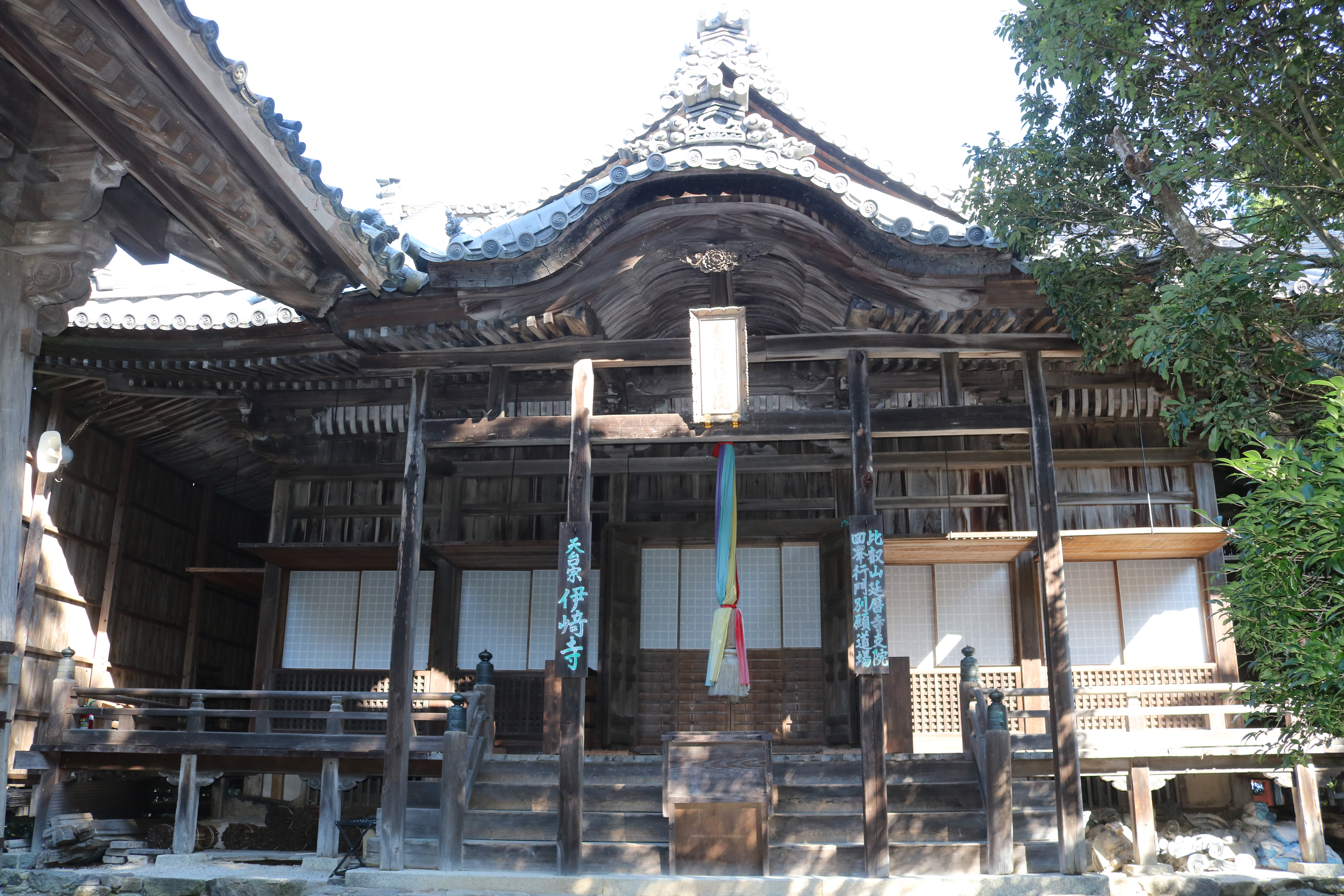 Hondo of Isaki-ji, buddhist temple of Tiantai, in Ōmihachiman, Shiga prefecture, Japan.